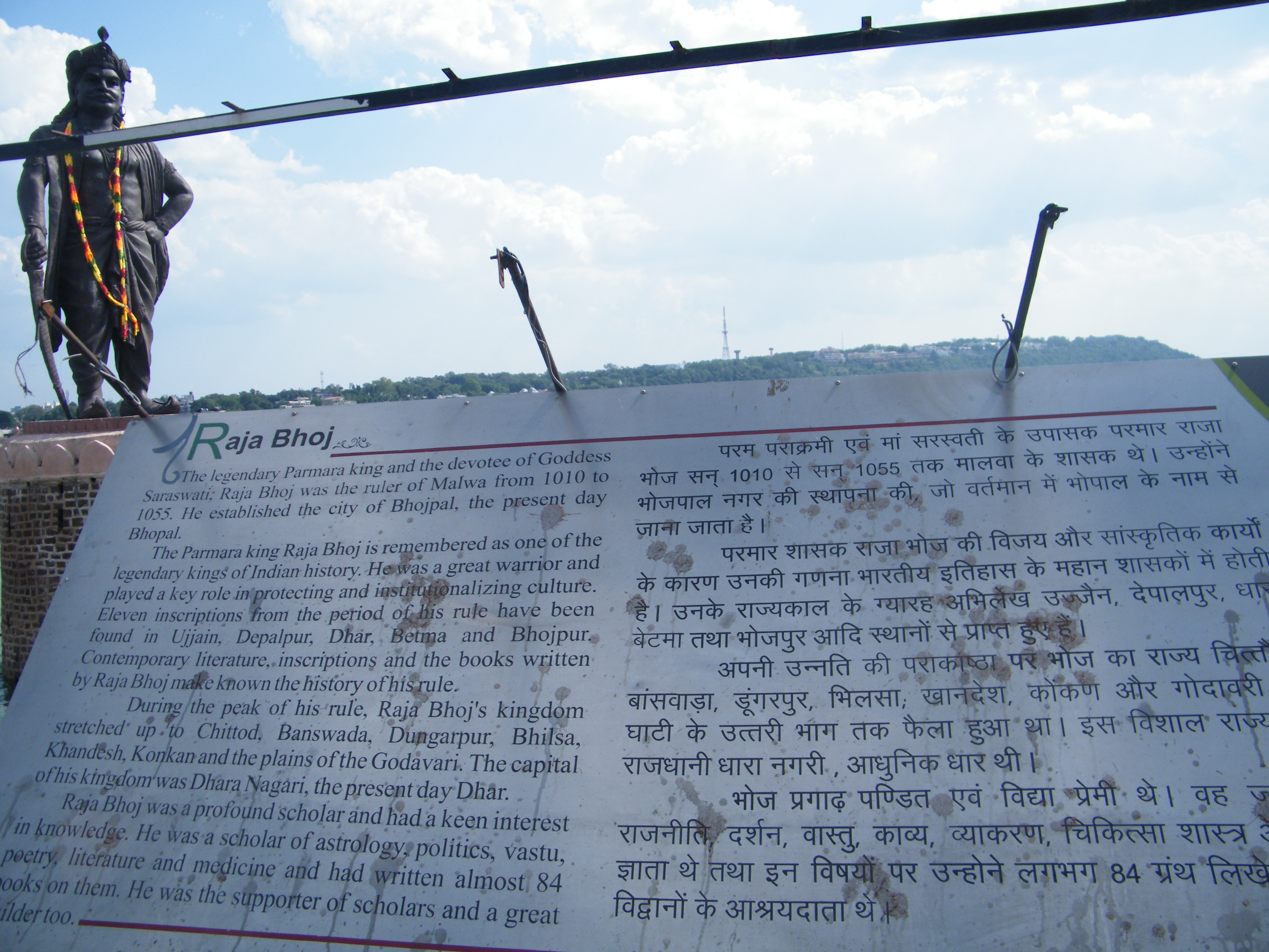 Statue of Raja Bhoj on the Upper Lake. A public information sign-board about Bhoj, is already covered in spit stains - even before lighting fixtures can be attached to it.